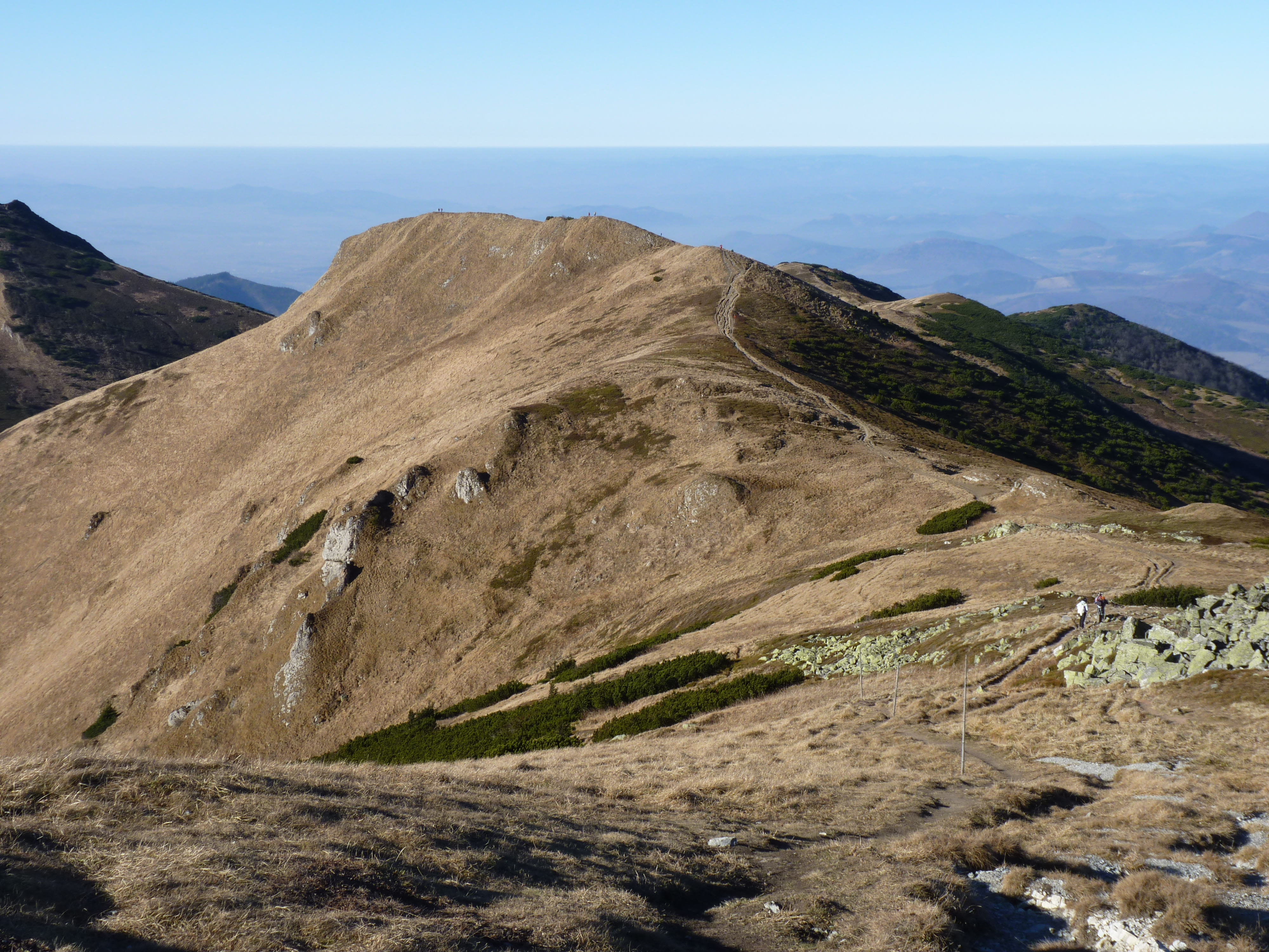 Bulben mountain pass. National Park Lesser Fatra, Slovakia